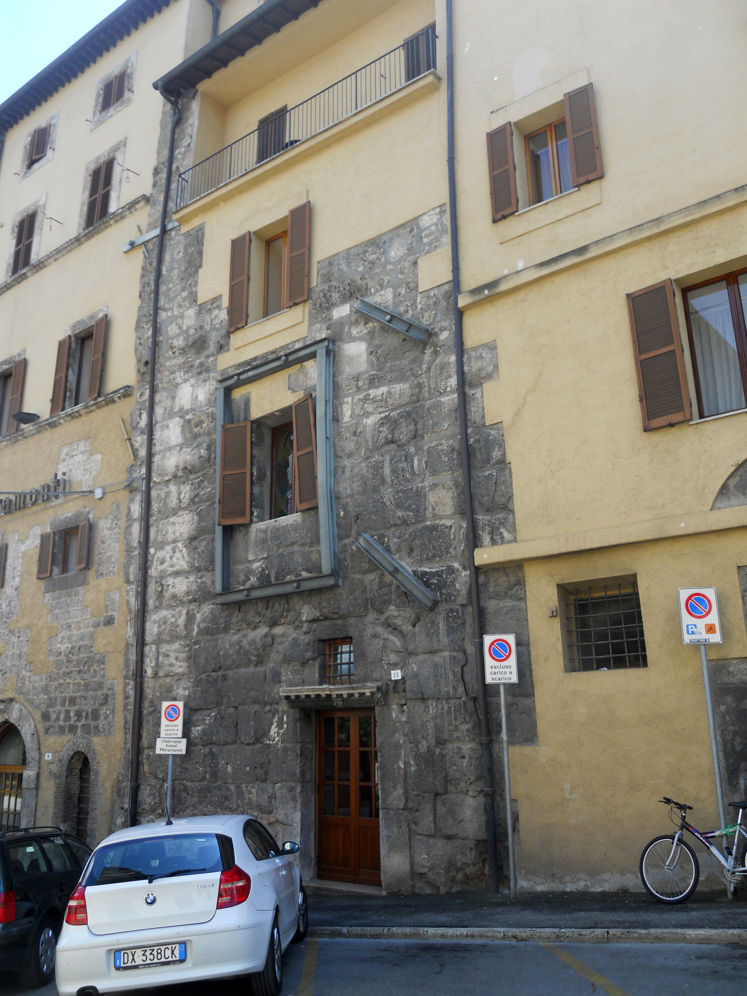 Remains of roman walls on the facade of Hotel Miramonti - Rieti, Italy